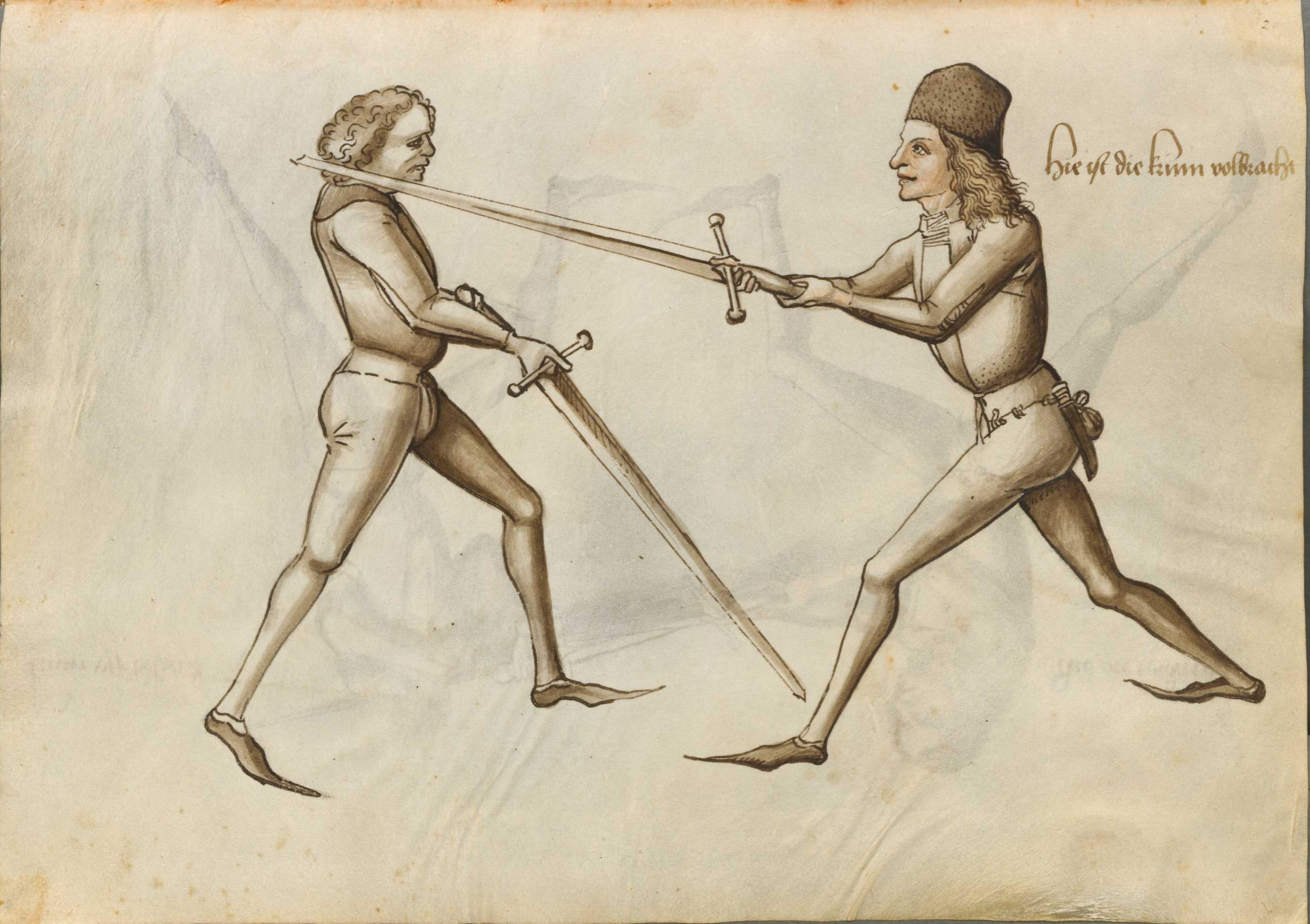 This is a scan of the historical Fechtbuch ('fencing book') by German fencing master Hans Talhoffer.